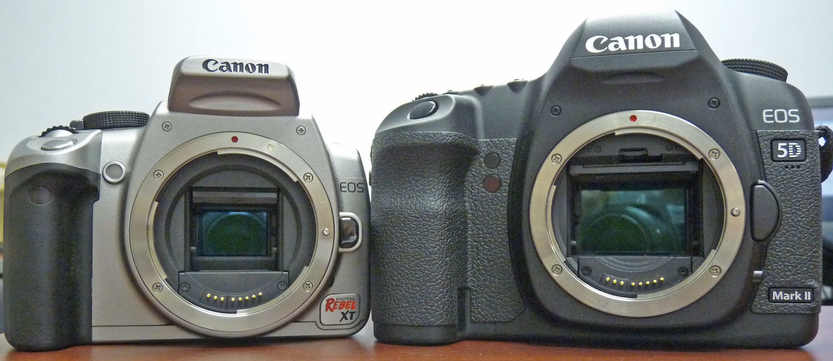 Comparison of the Rebel XT and 5D Mark II CMOS sensors. The Rebel is a "crop body" while the 5D Mark II is a full frame DSLR.